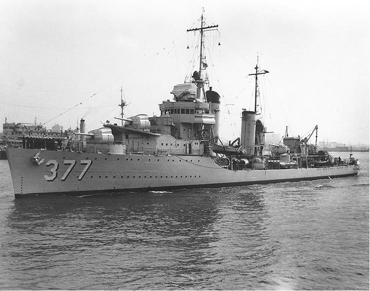 Photo #: NH 74321. USS Perkins (DD-377) underway in harbor (probably at San Diego, California), 1 November 1937. U.S. Naval Historical Center Photograph.